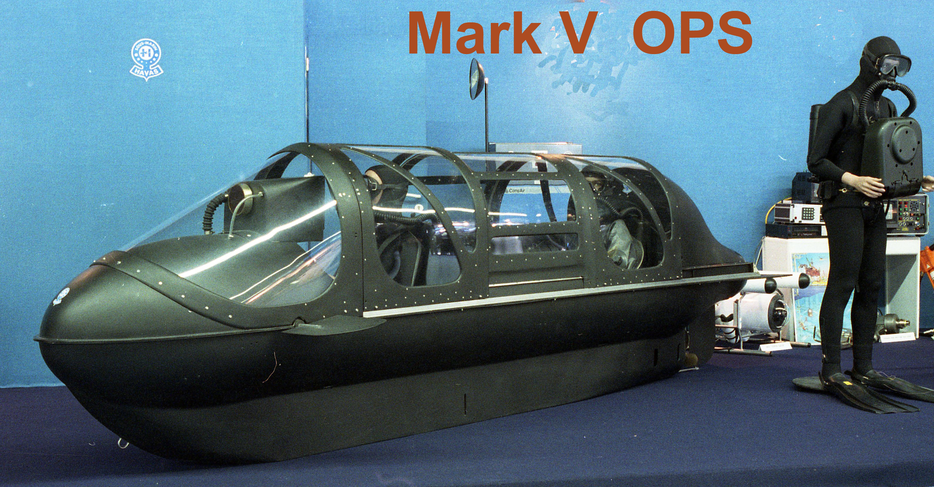 Swimmer delivery vehicle type Mark V OPS